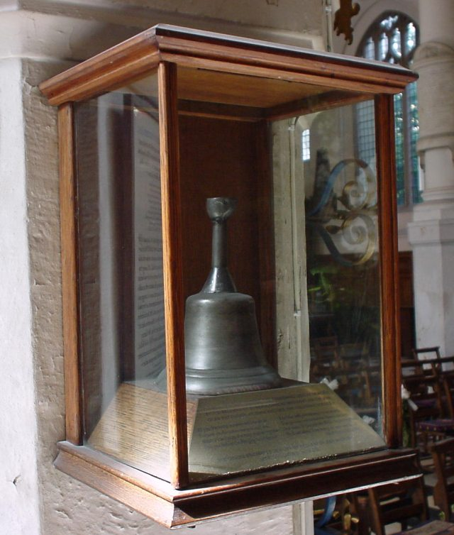 Photo taken by lonpicman